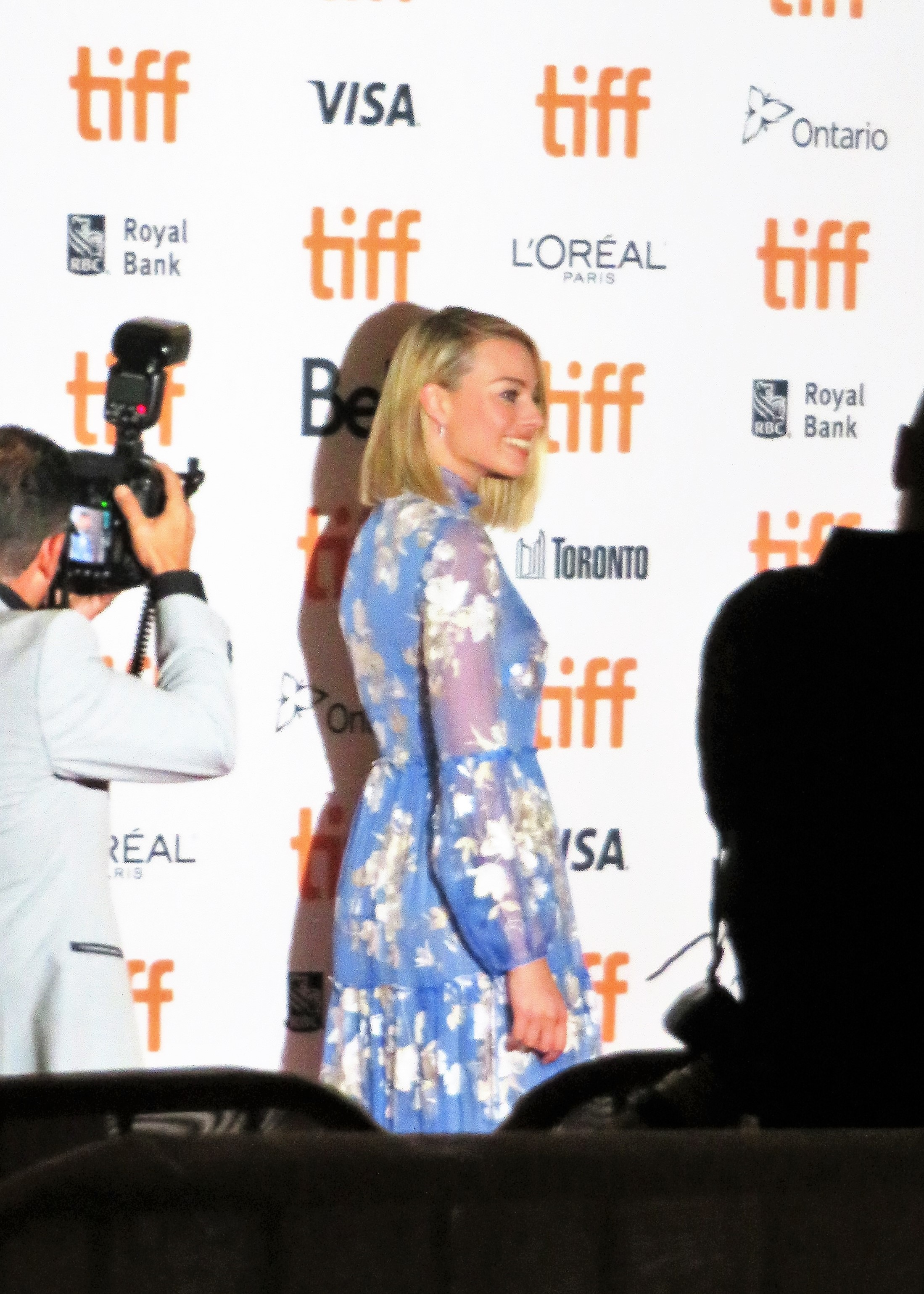 Margot Robbie at the premiere of I Tonya, 2017 Toronto Film Festival